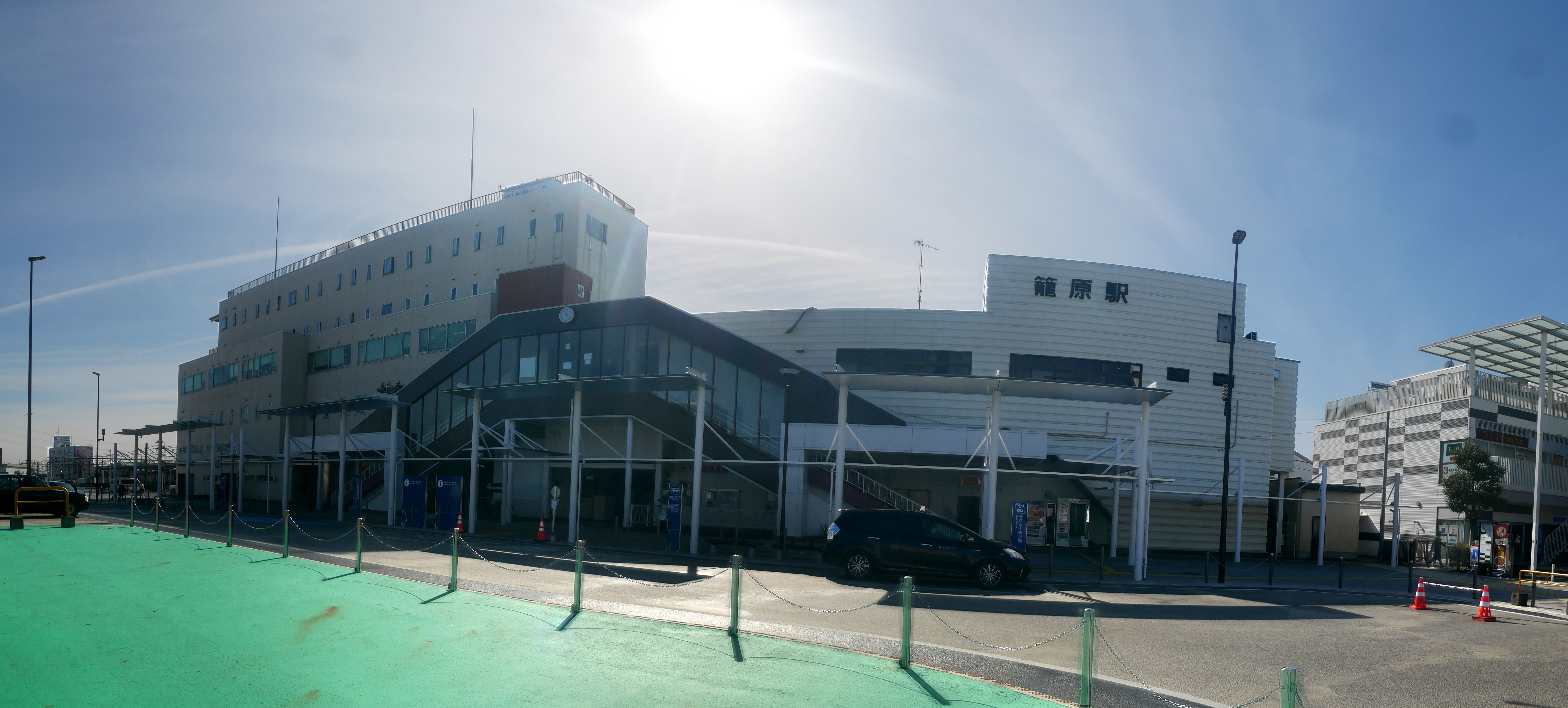 Kagohara Station north exit (籠原駅の北口)